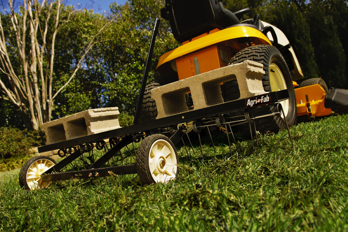 Agri-Fab tine dethatcher pulled by a lawn tractor